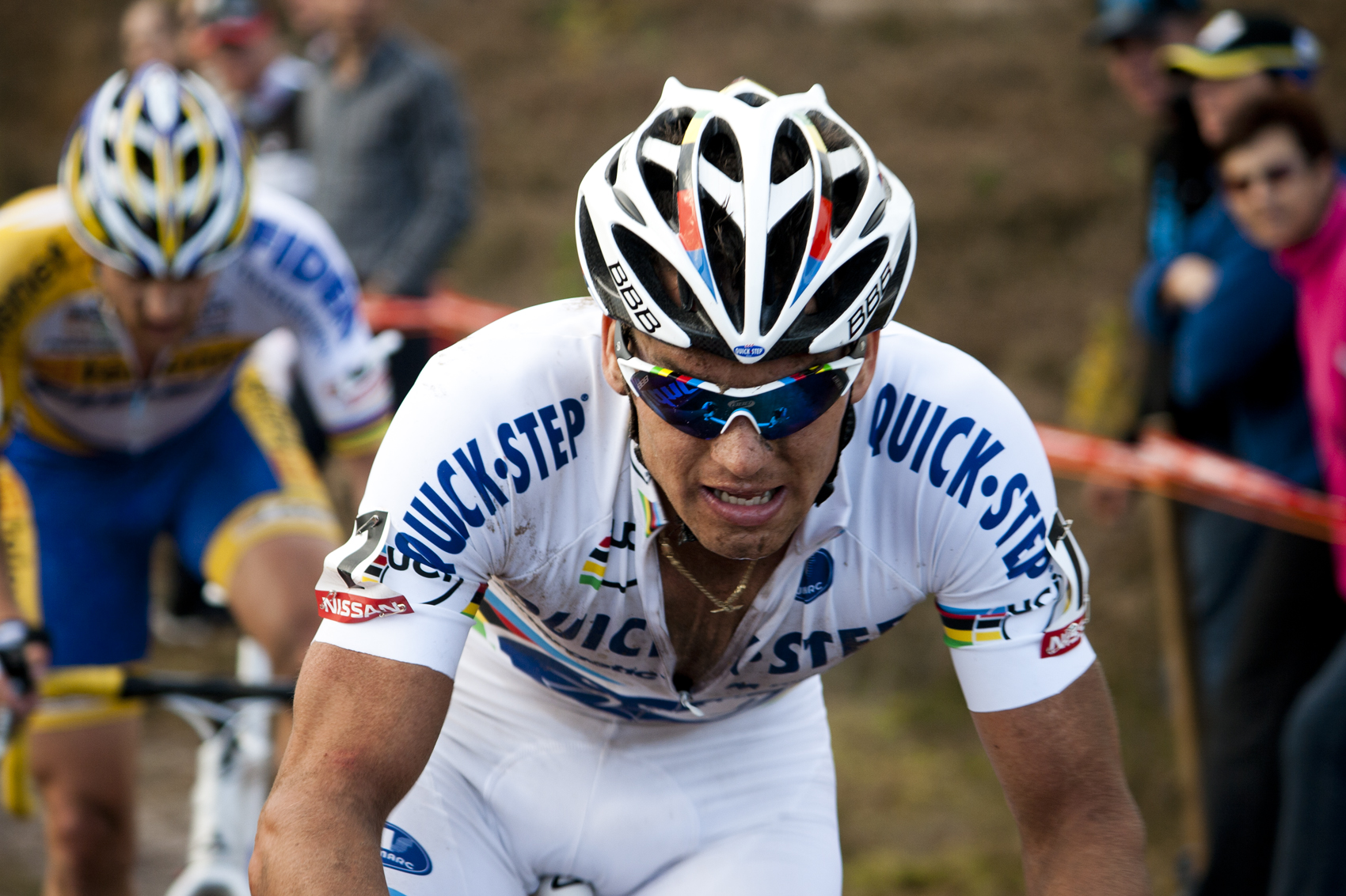 Zdenek Stybar at Superprestige Zonhoven 30/10/2011